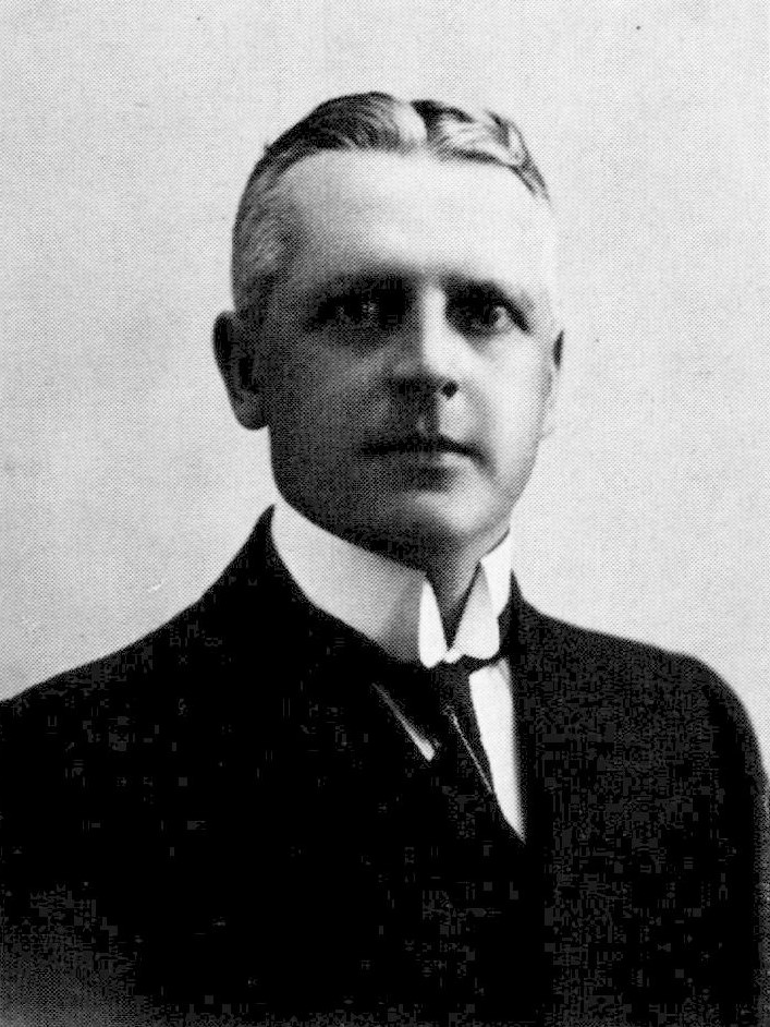 Swedish count and director-general Henning Adolf Hamilton (1873-1965)